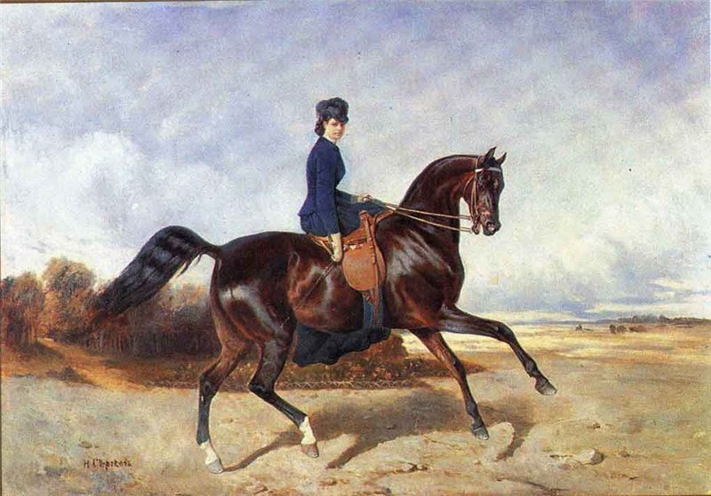 Painting by Nikolai Sverchkov